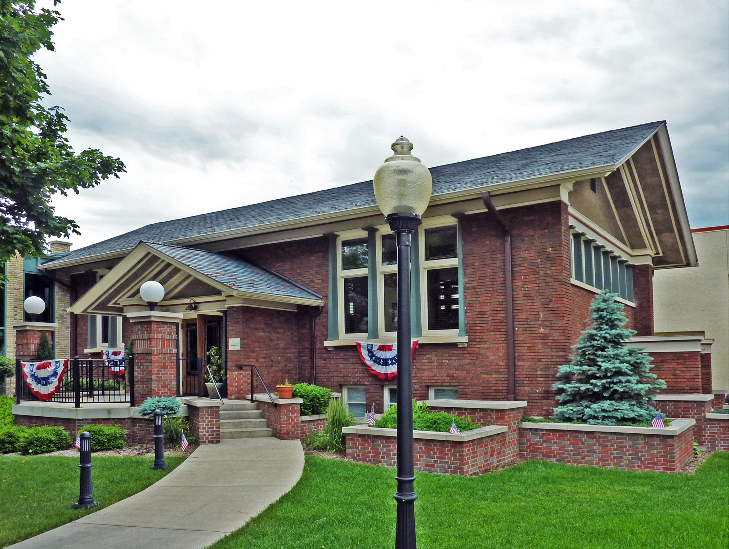 The public library in Jefferson, Wisconsin, was designed by the Madison firm Claude & Starck. It was added to the National Register of Historic Places in 1980.